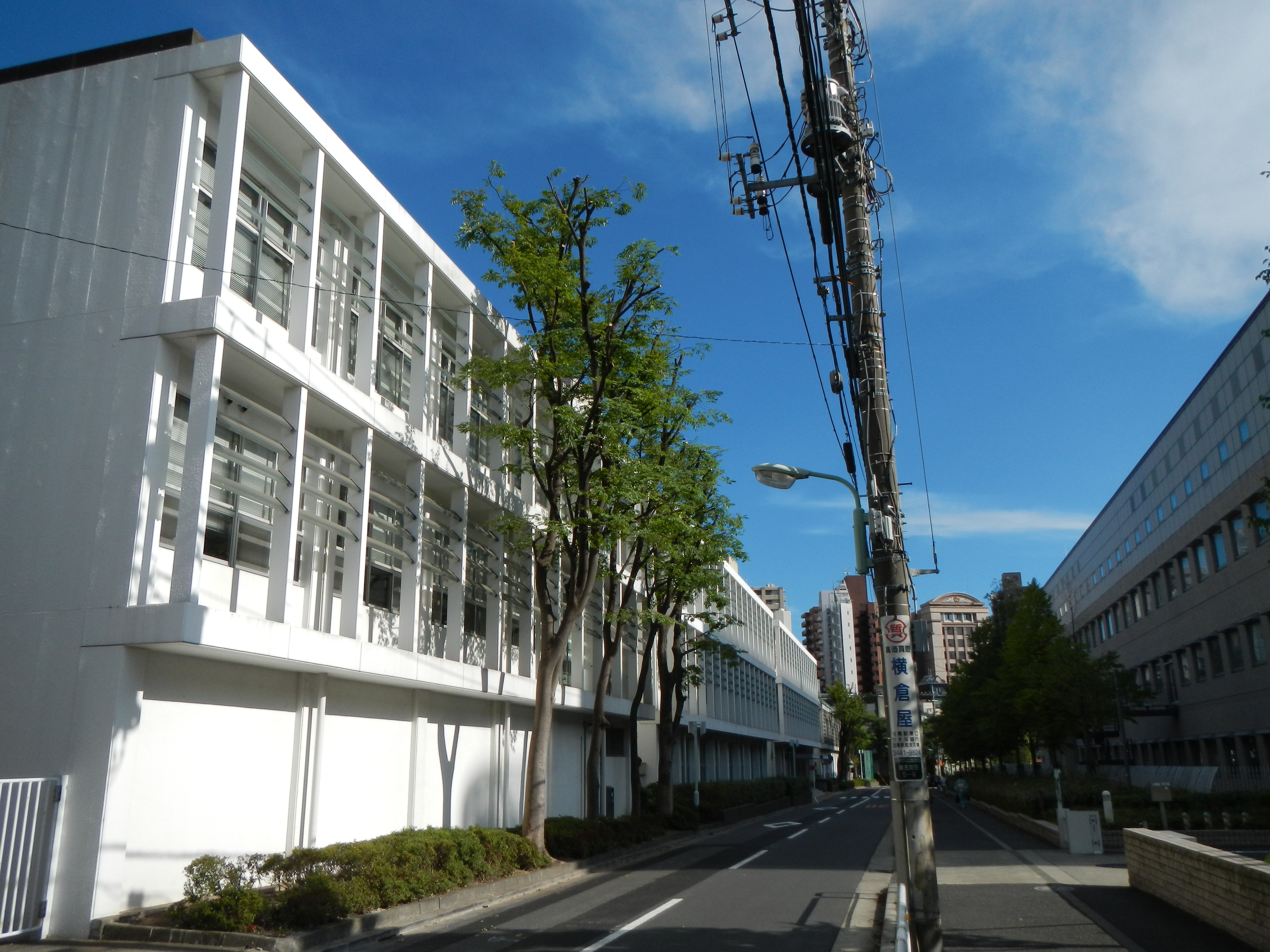 Gotanda Campus of Tokyo Health Care University at Shinagawa, Tokyo.